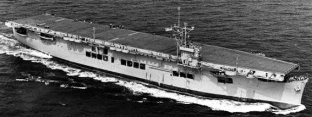 The U.S. Navy escort carrier USS Sangamon (ACV-26, later CVE-26) as converted, in September 1942.